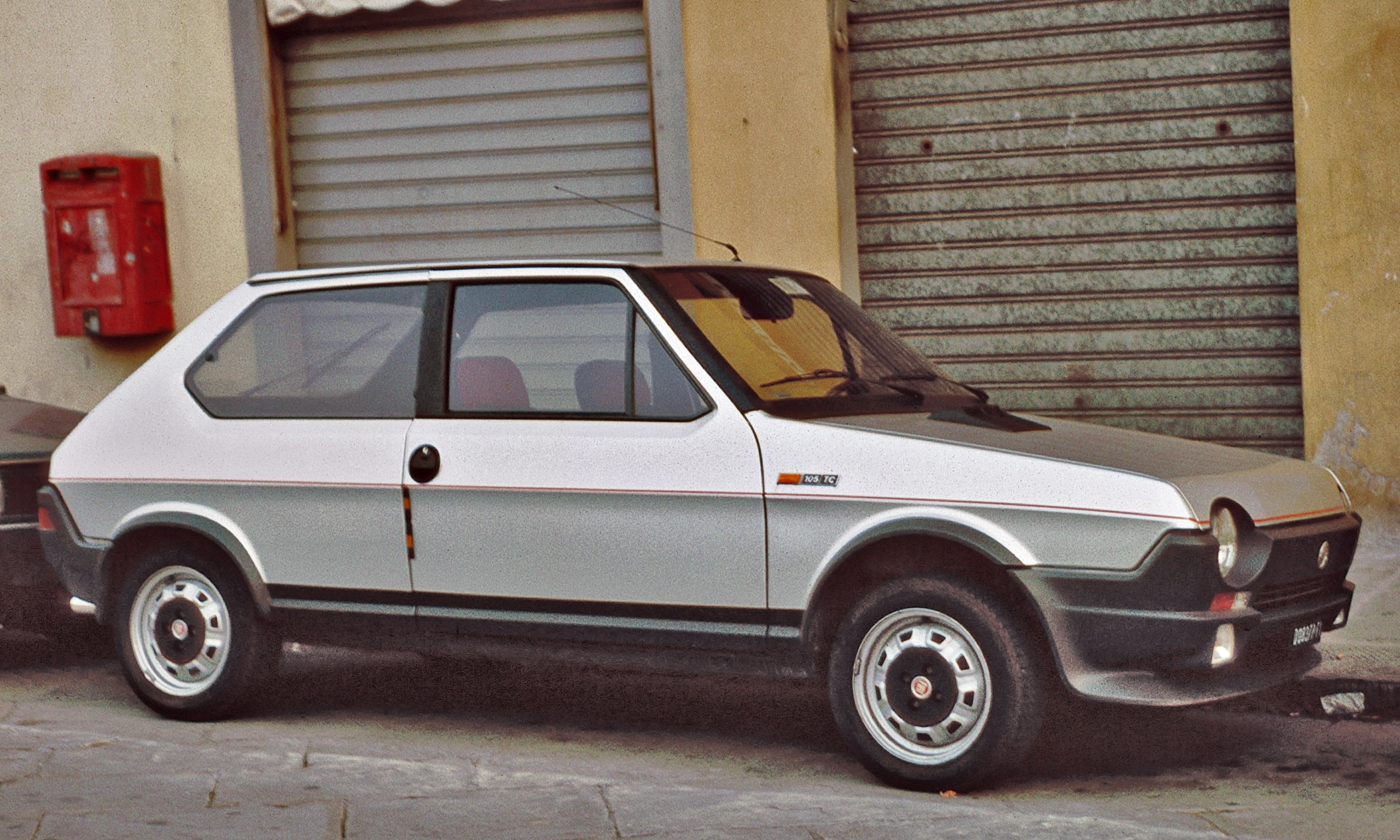 Fiat Ritmo 105TC in Italy